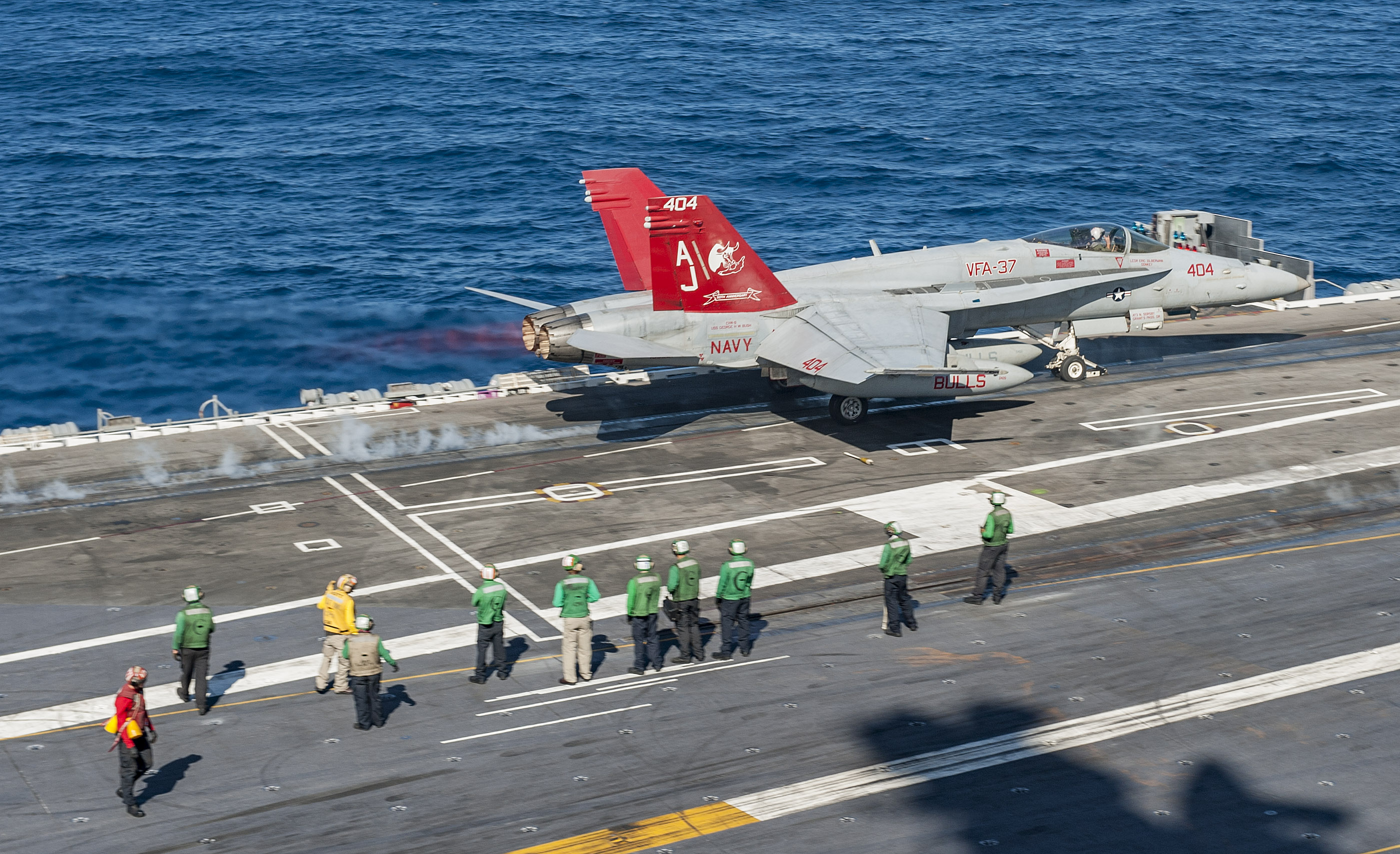 U.S. Navy McDonnell Douglas F/A-18C Hornet attached to Strike Fighter Squadron 37 (VFA-37) "Bulls" takes off from the aircraft carrier USS George H.W. Bush (CVN-77) on 20 October 2017. The George H.W. Bush Strike Group was underway completing sustainment requirements as part of exercise "Bold Alligator 17".